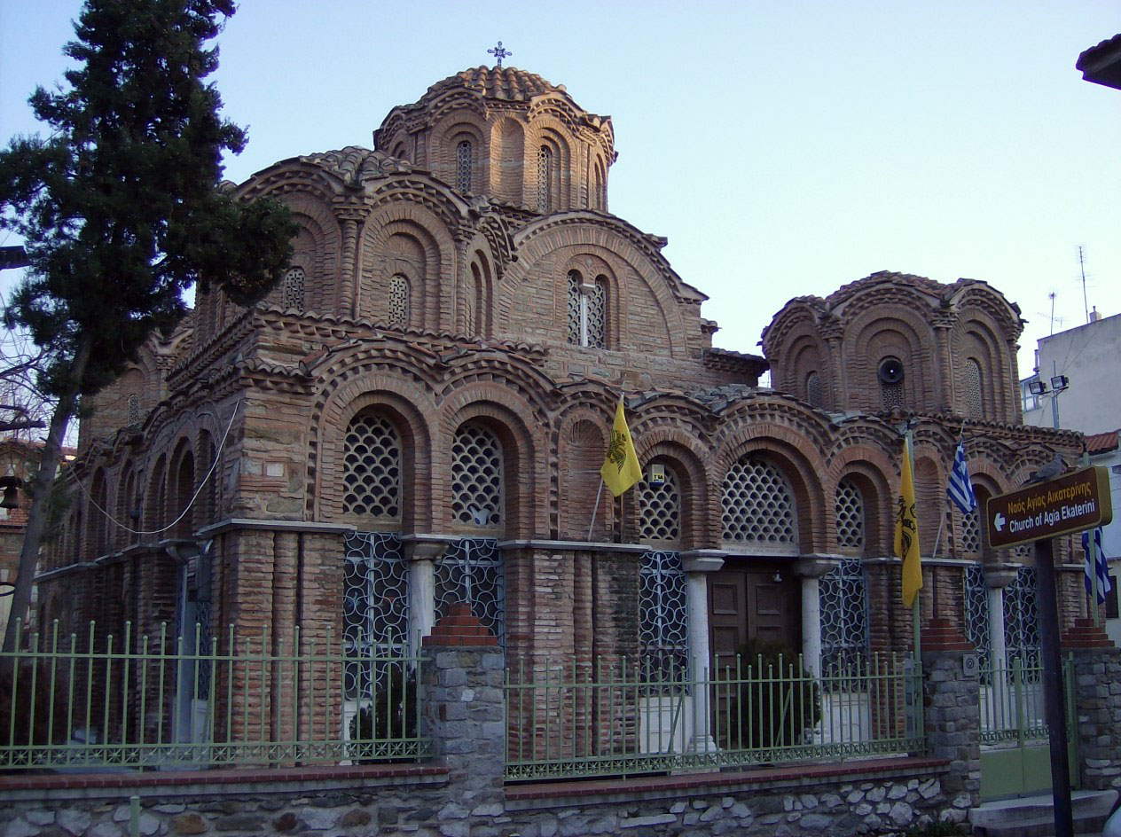 Church of St Catherine in Thessaloniki